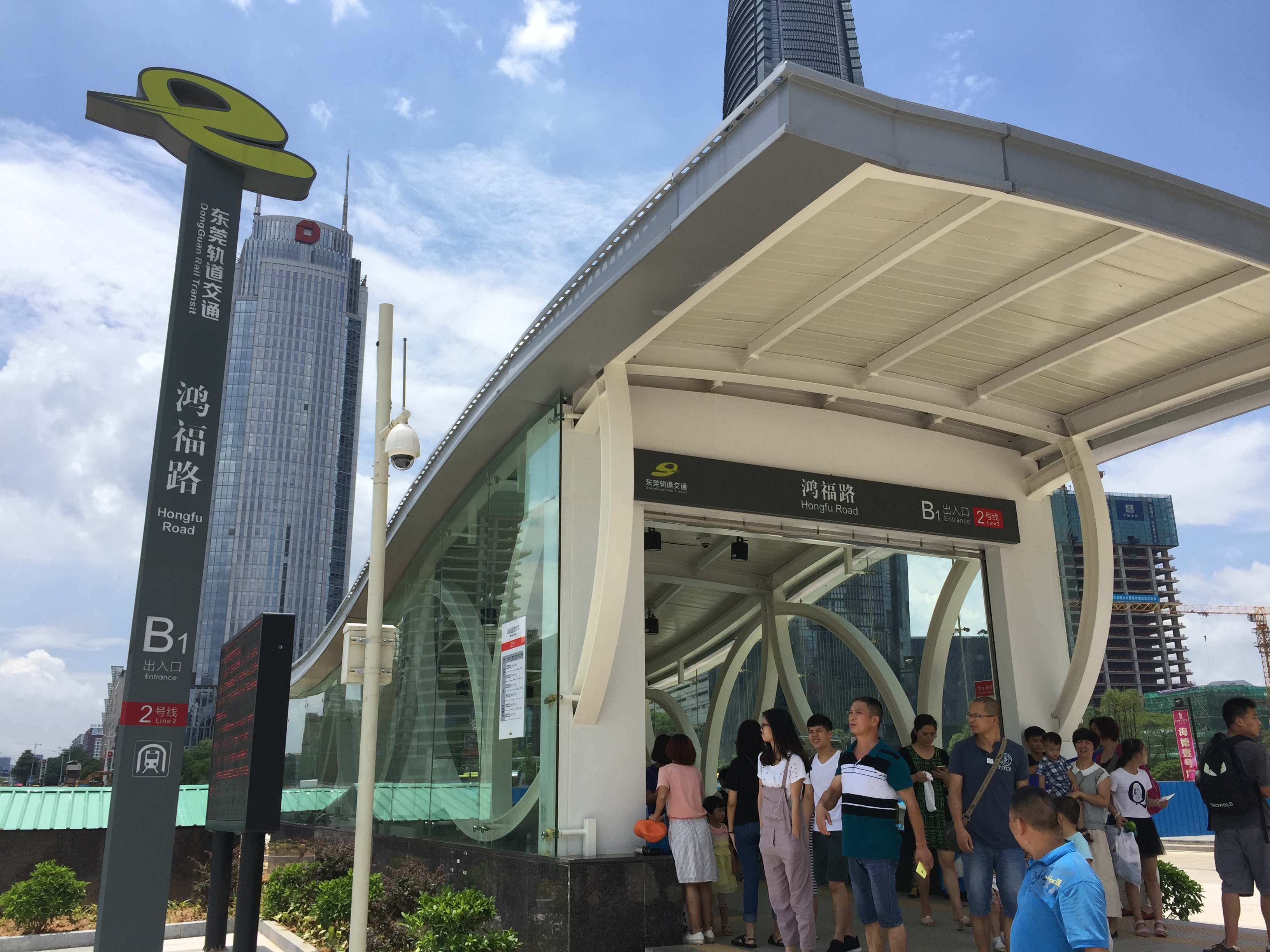 Line 2 of the Dongguan Rail Transit.